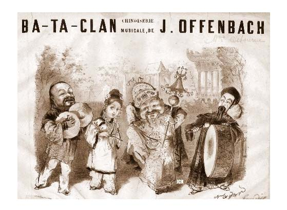 Jacques Offenbach : Ba-ta-clan, drawing by Nadar